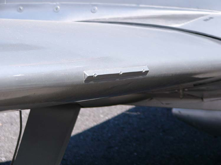 Stall strip on aircraft wing